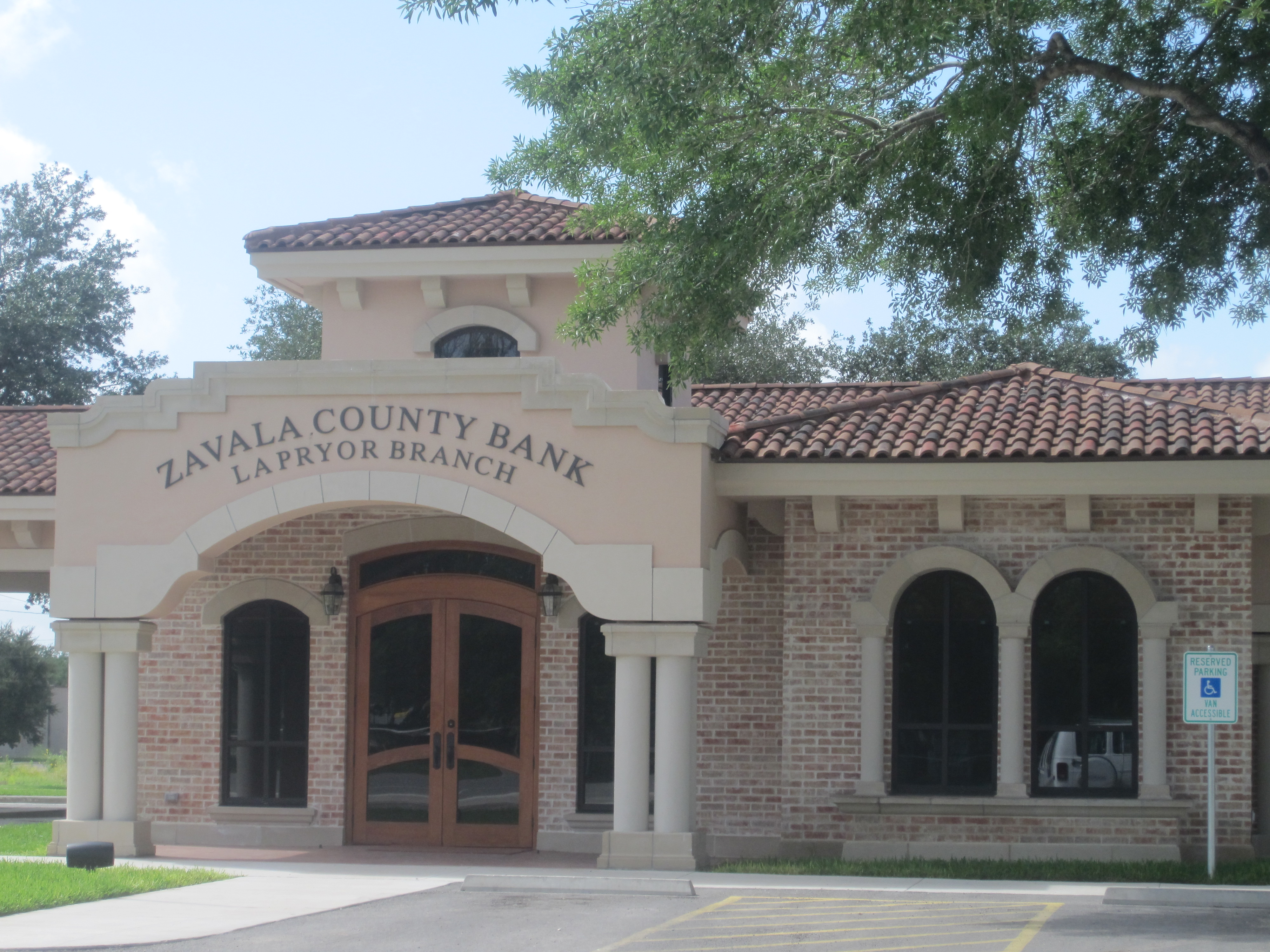 I took photo with Canon camera in LaPryor, TX.